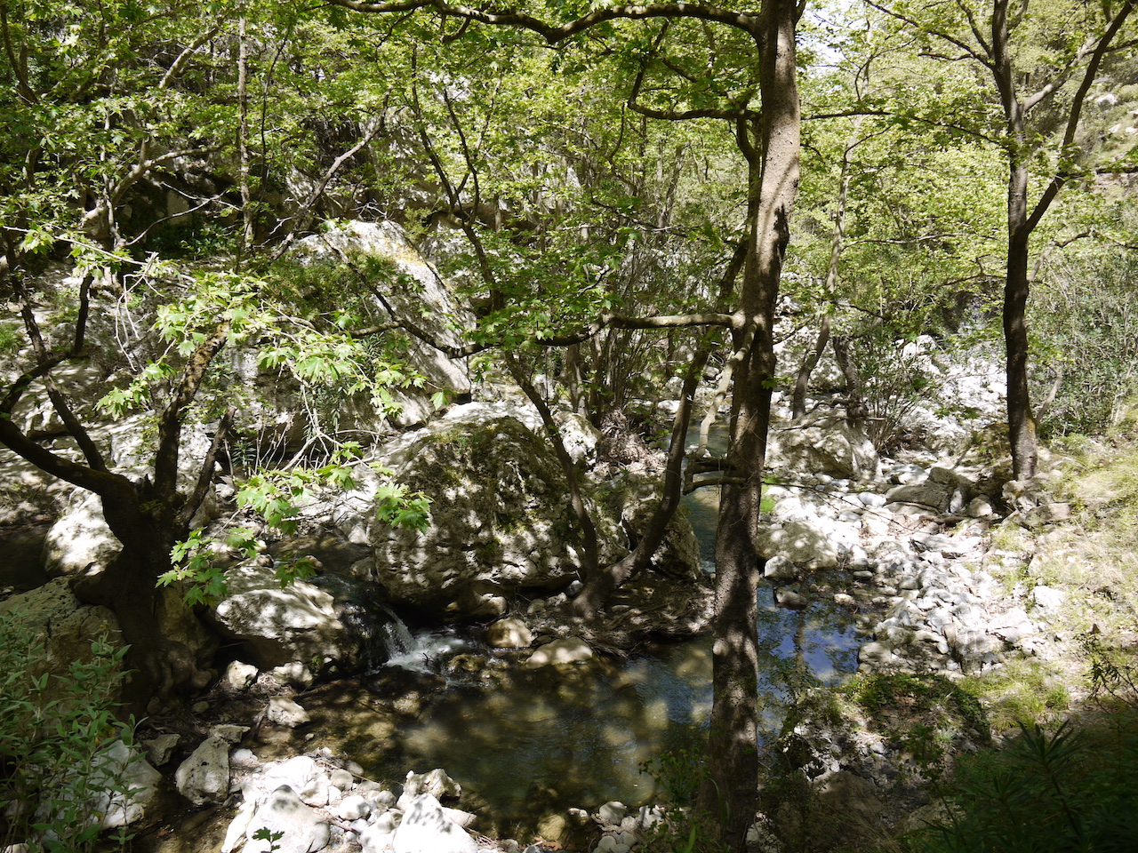 This is a photography of Natura 2000 protected area with ID GR4330004